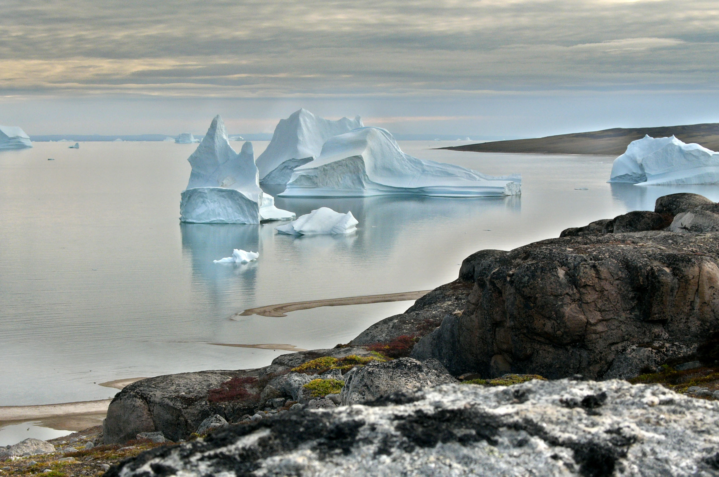 inner Scoresby Sund, East Greenland with icebergs